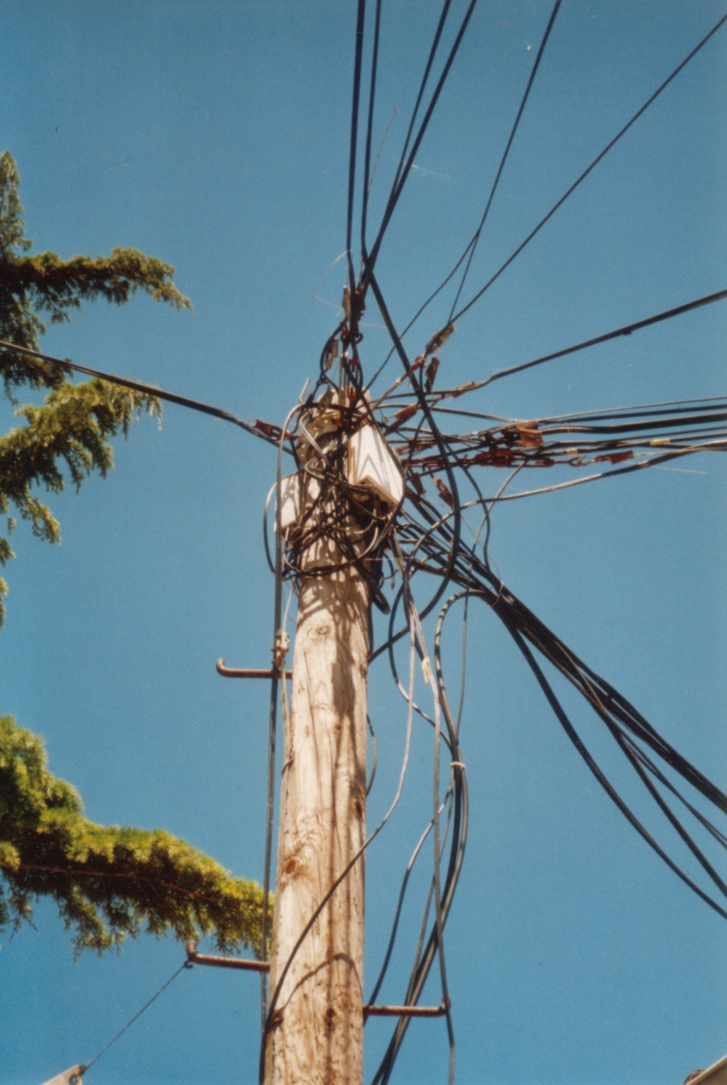 Picture shows cable spaghetti on a telephone pole in Croatia